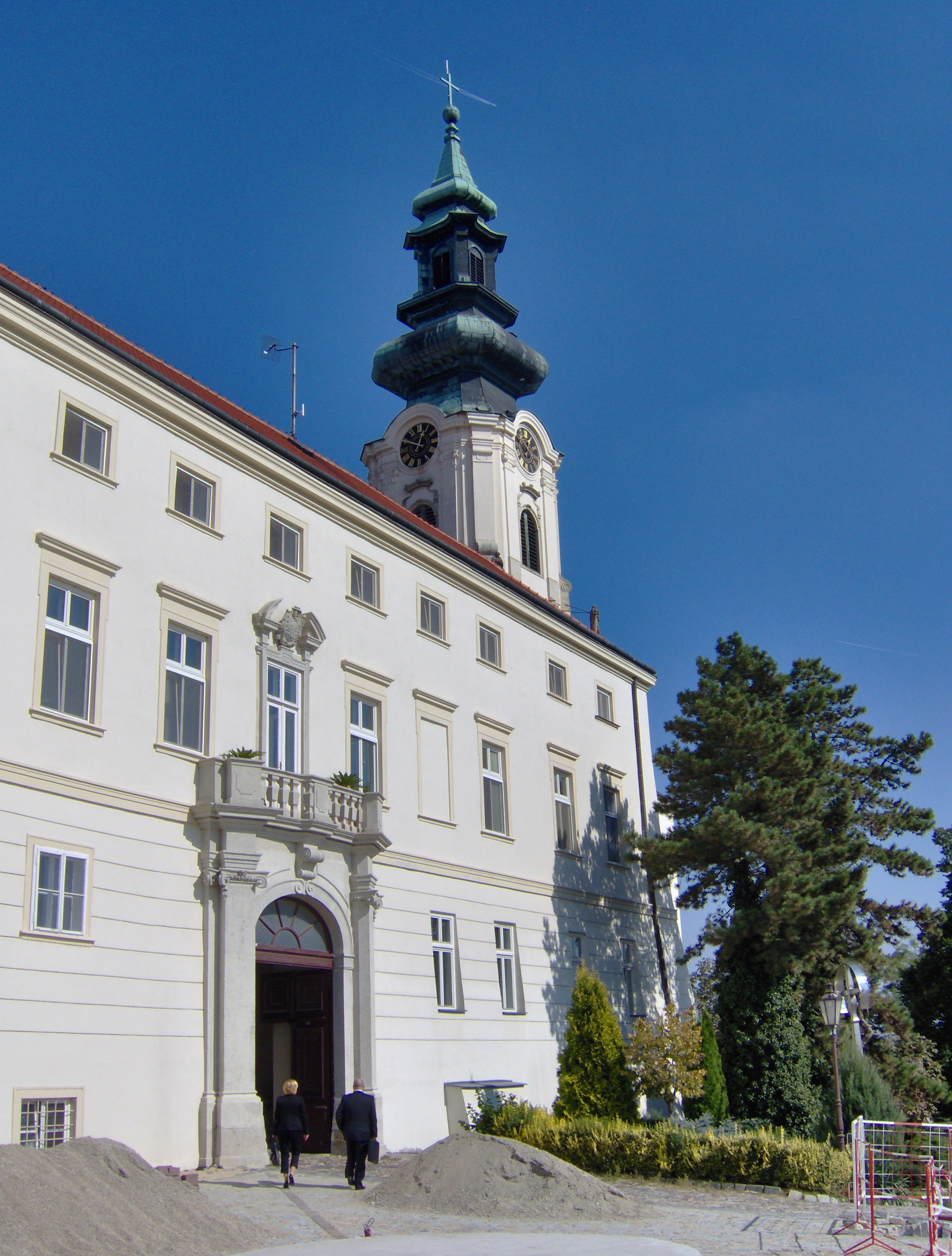 Nitra Castle